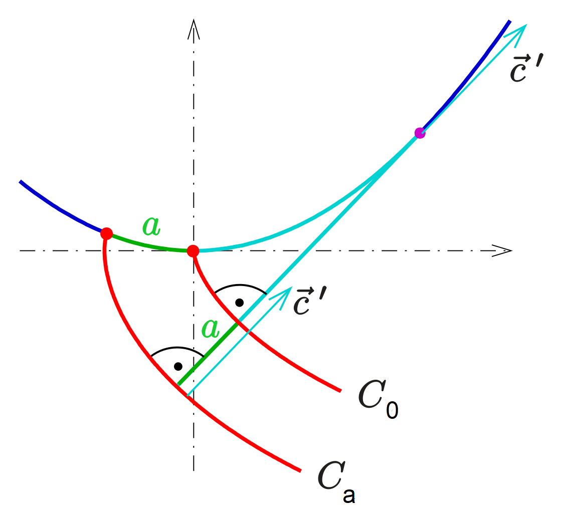 Involute(in red) of parabola(dark blue). The distance between the two involutes is always equal to 'a'. A tangent to the parabola is a normal to the involute.